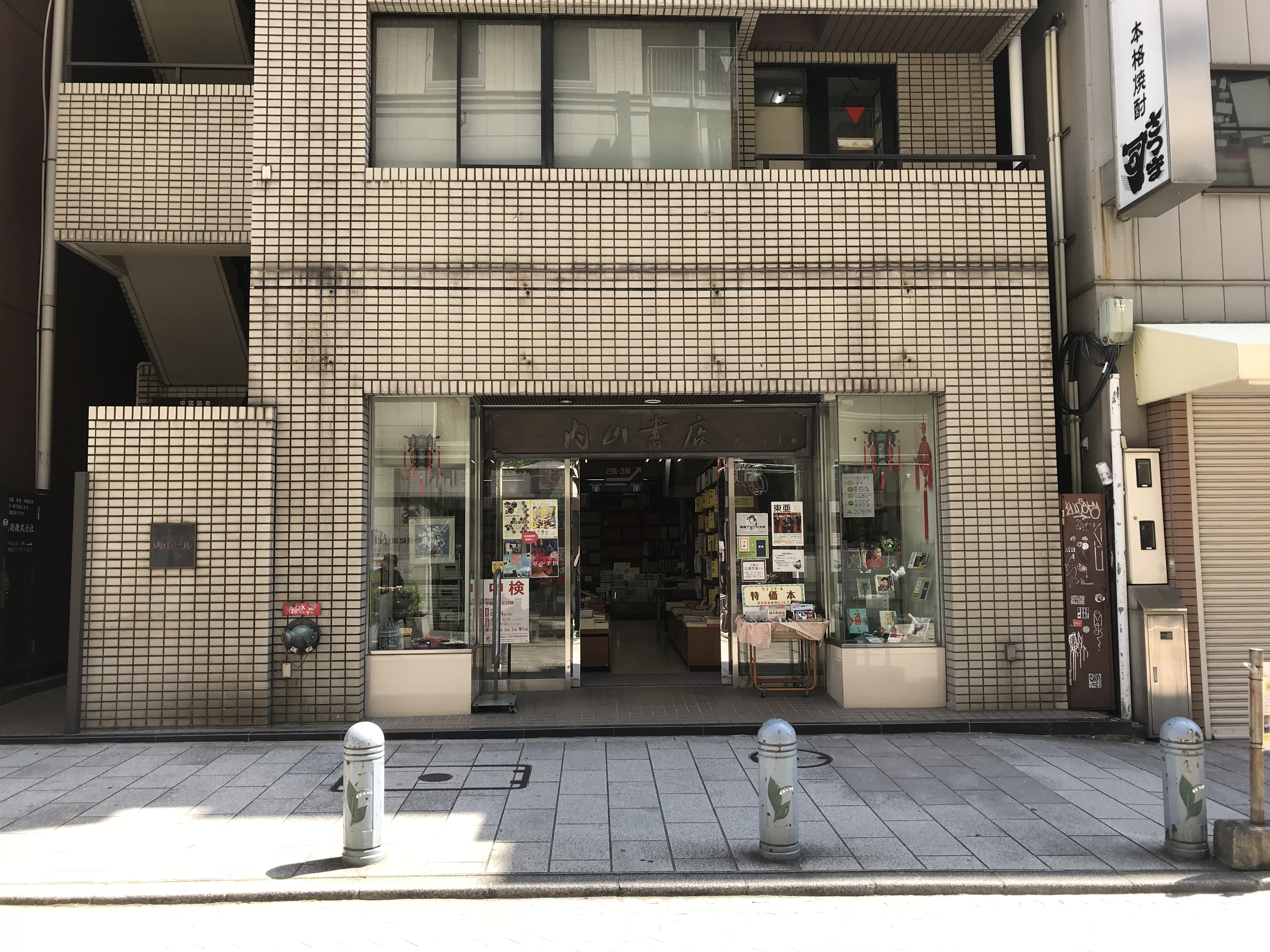 Uchiyama Books